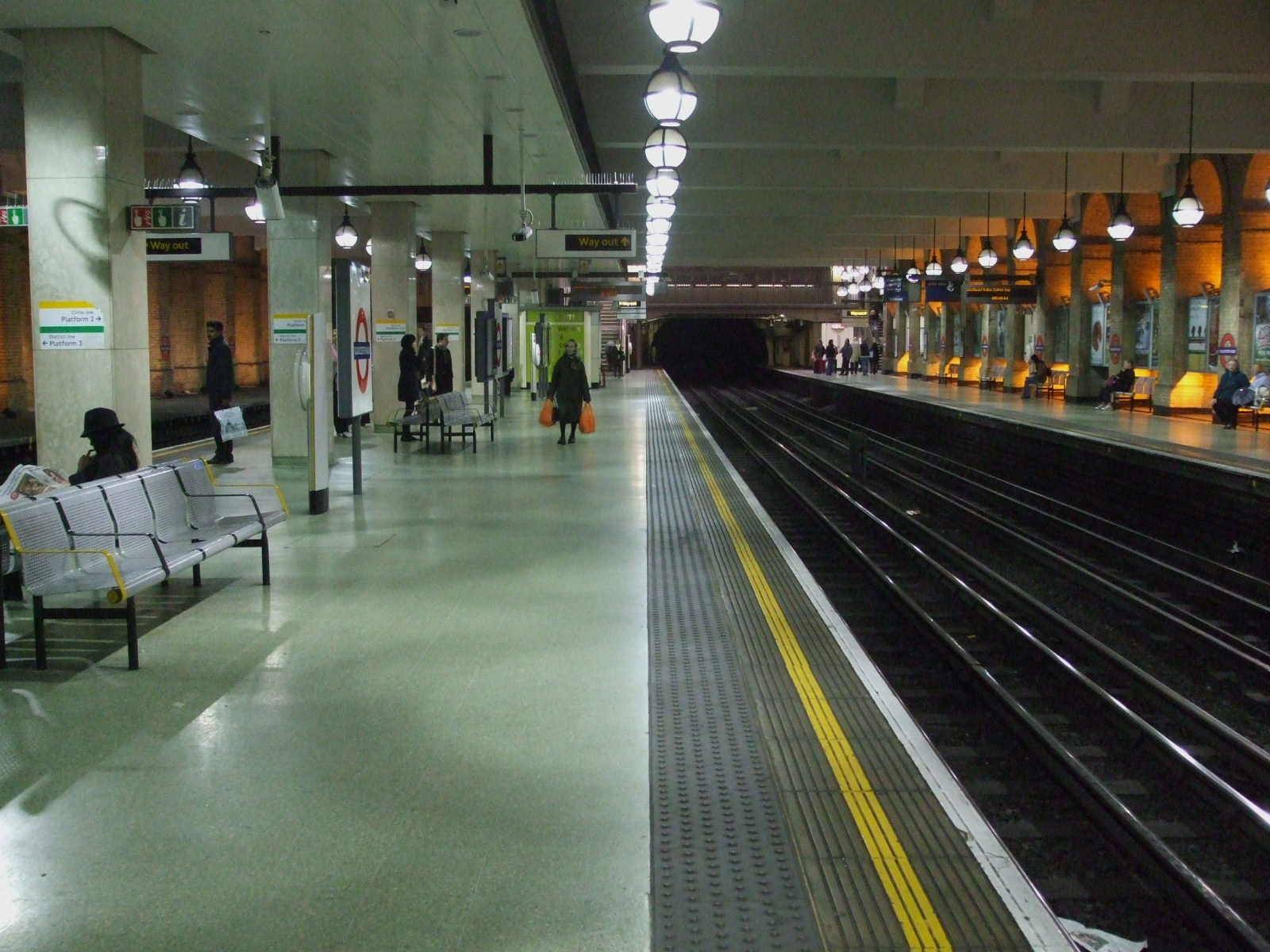 Gloucester Road tube station westbound (ie. clockwise) Circle line platform looking east. District line westbound services have their own platform to the right.